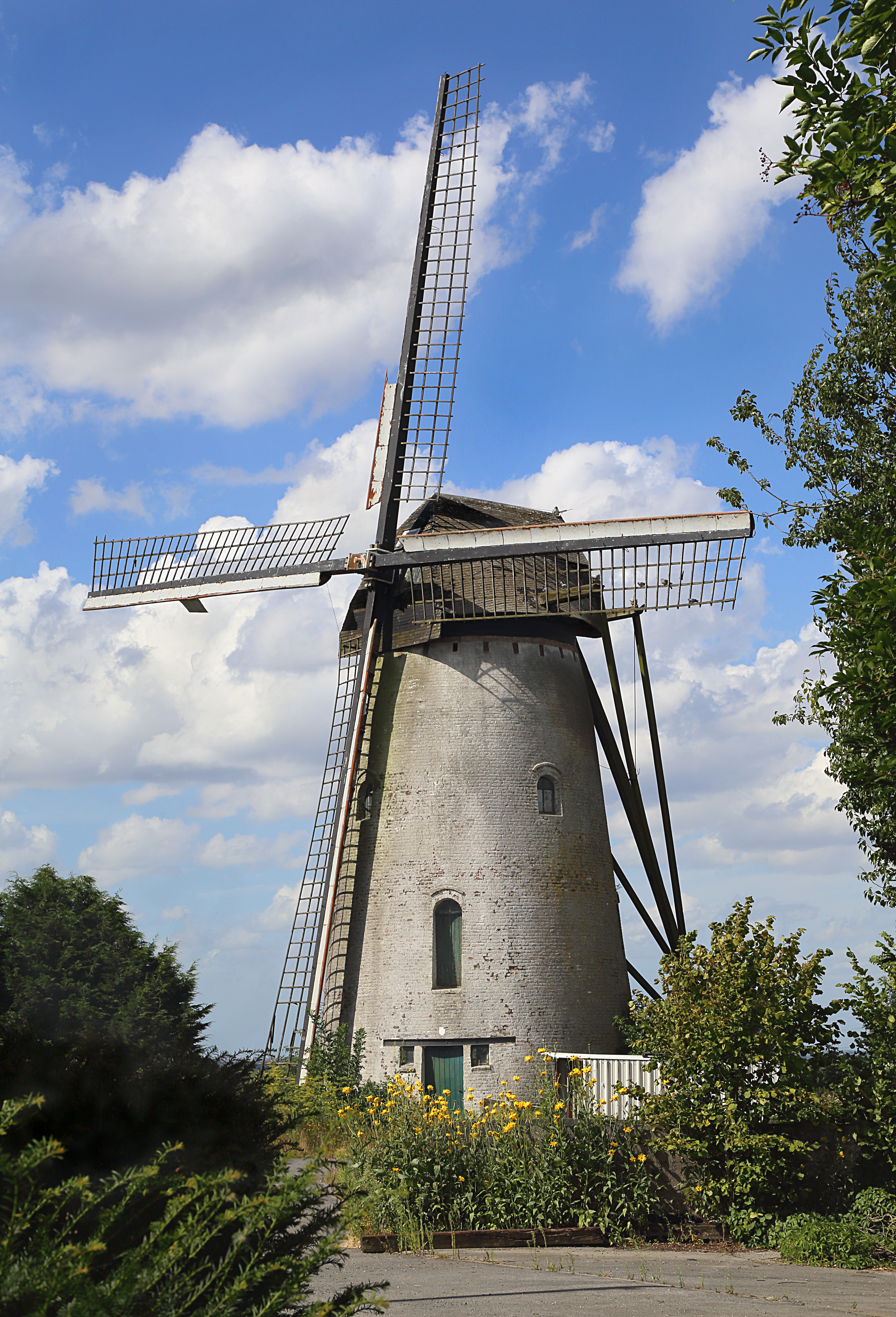 Windmill 'Ter Klare’ / ’Ter Claere’ in Sint-Denijs (Zwevegem), Belgium.